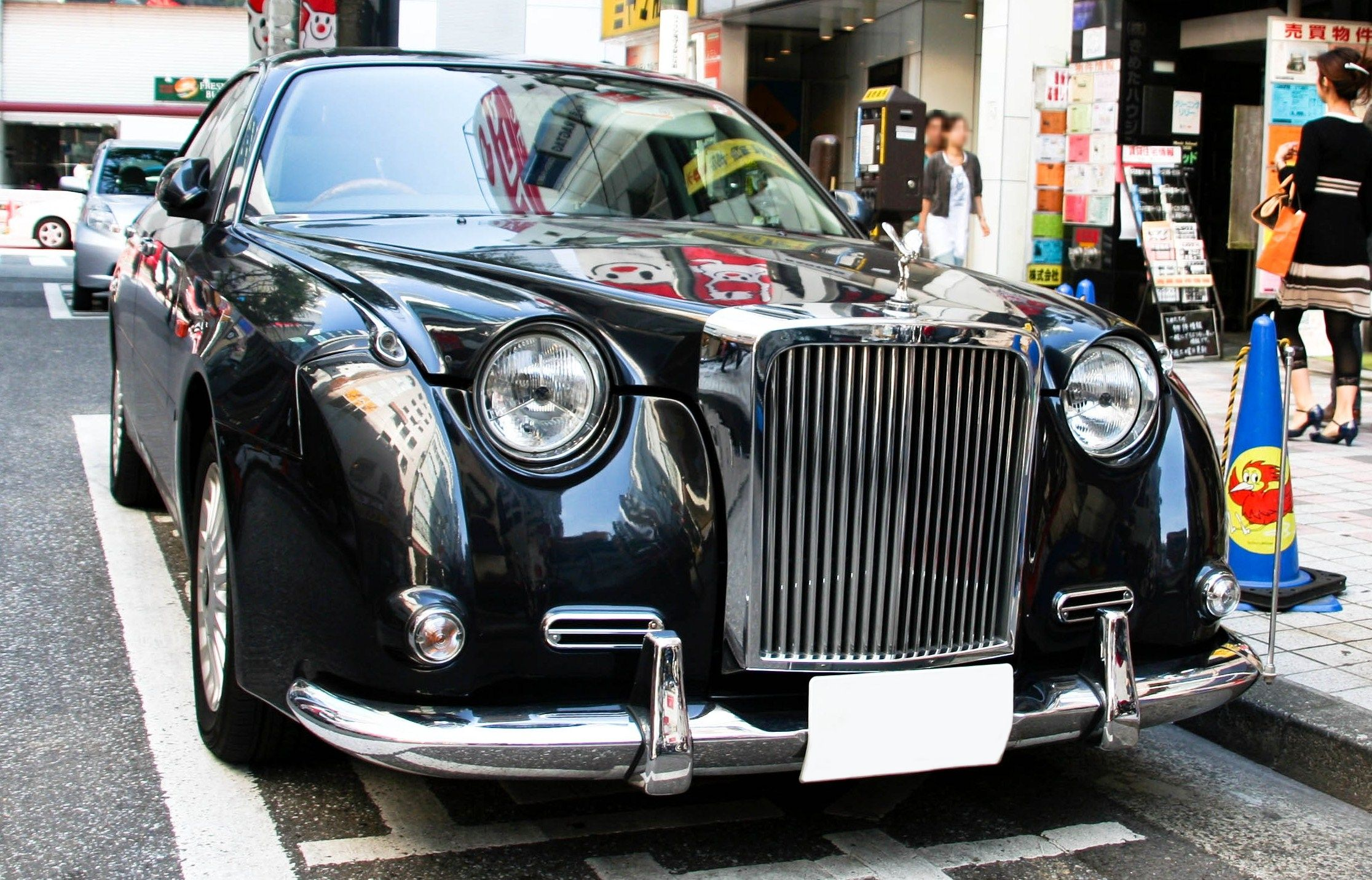 Mitsuoka GalueThe Spirit of Ecstasy is Not official by Mitsuoka. It is "Faked" by the car owner.